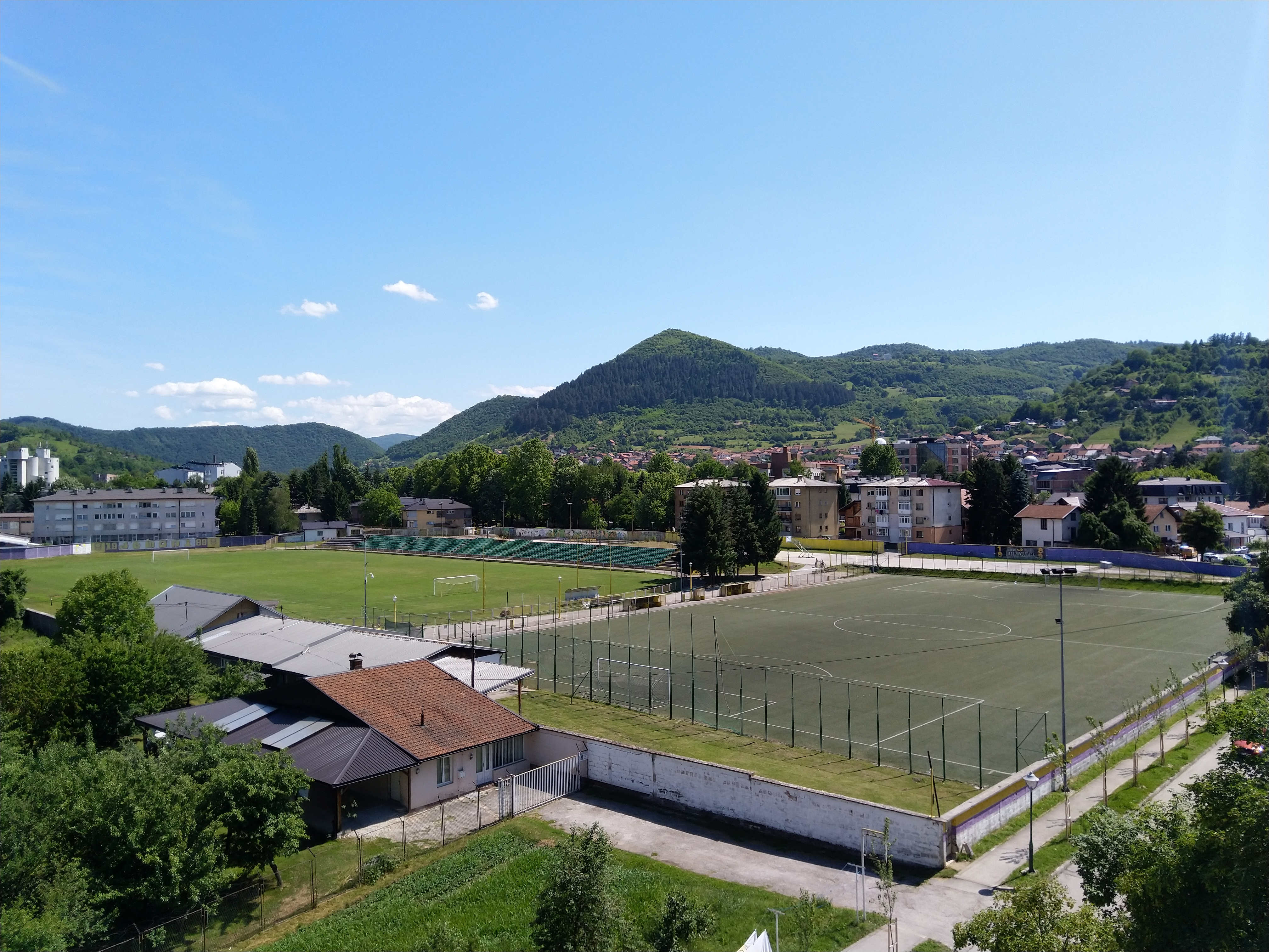 Stadium Luke in Visoko and its training field